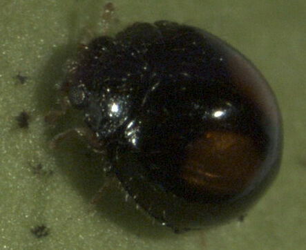 live Serangium maculigerum on Citrus leaf in Auckland, New Zealand